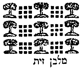 illustration for Rambam commentary on Mishnah